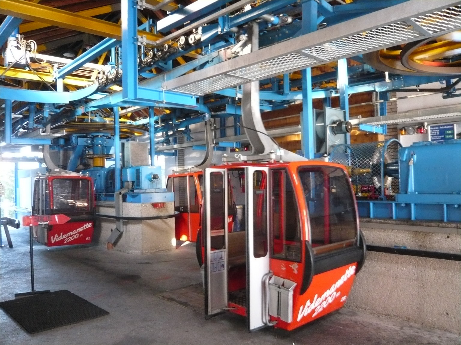 Picture of GMD Mueller gondola lift in Gstaad, Switzerland, built in 1984.